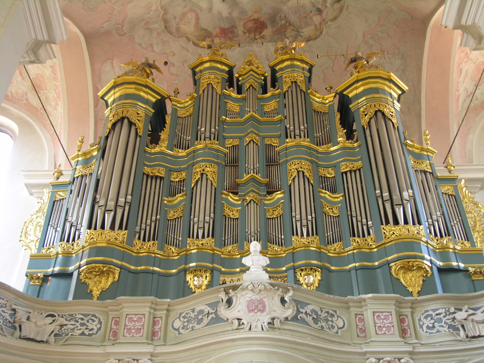 Vilnius Historic Centre (Lithuania)